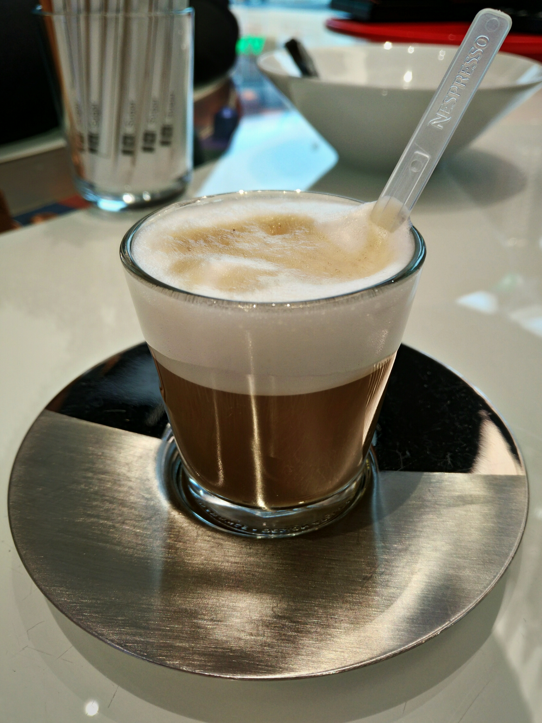 Caffè macchiato